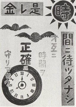 The poster of "Toke no kienbi"(Memorial day of the time).